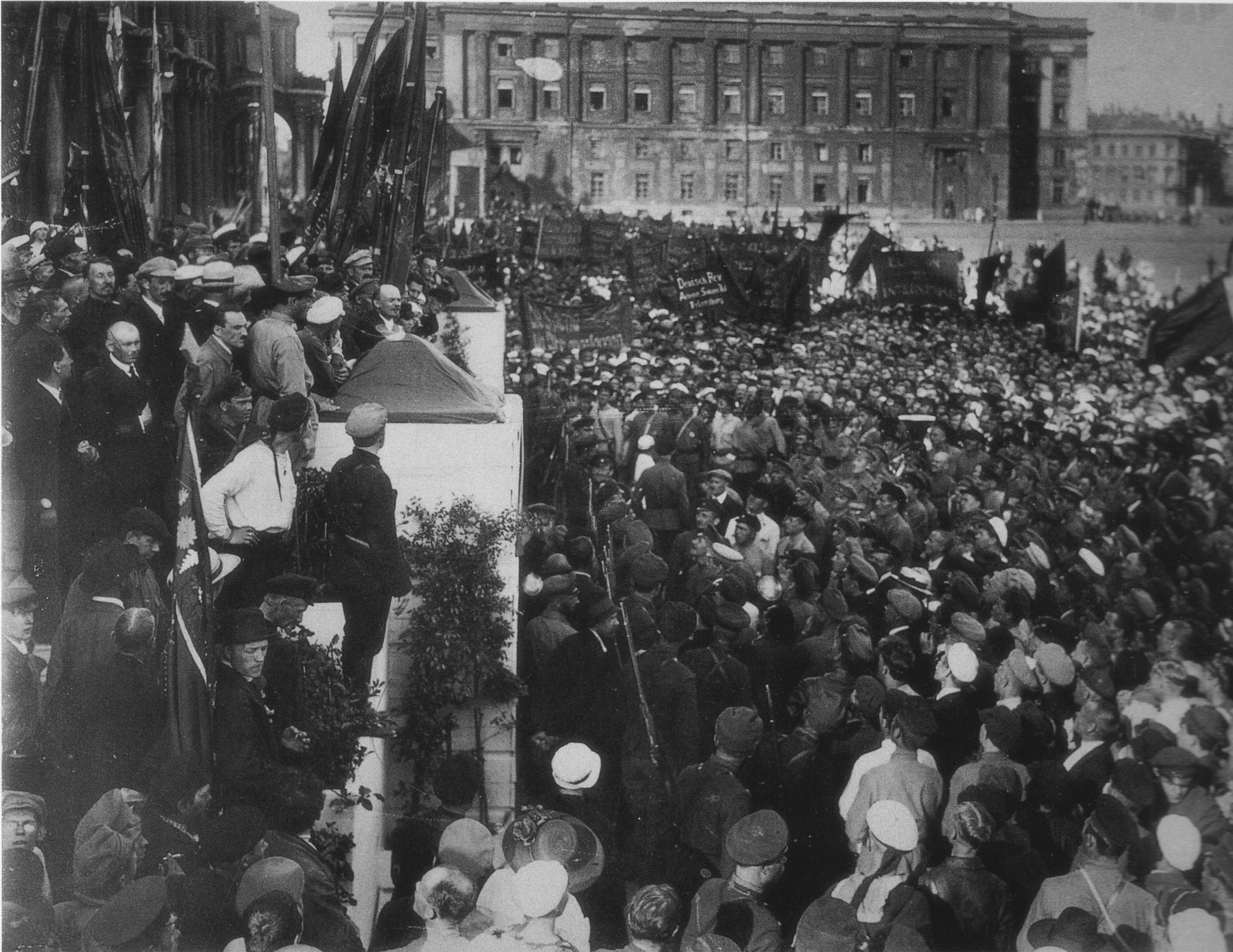 V. I. Lenin making a speech at a meeting dedicated to the laying of the foundation stone for a monument to K. Liebknecht and R. Luxemburg, in Dvorstsovaya Square. Petrograd. [1]